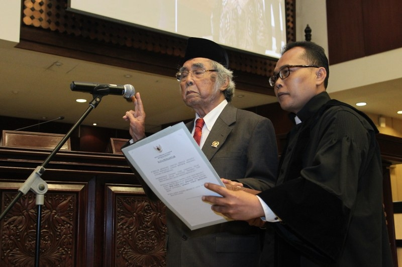 The inauguration of Sabam Sirait as inter-time substitute member of the Regional Representative Council.